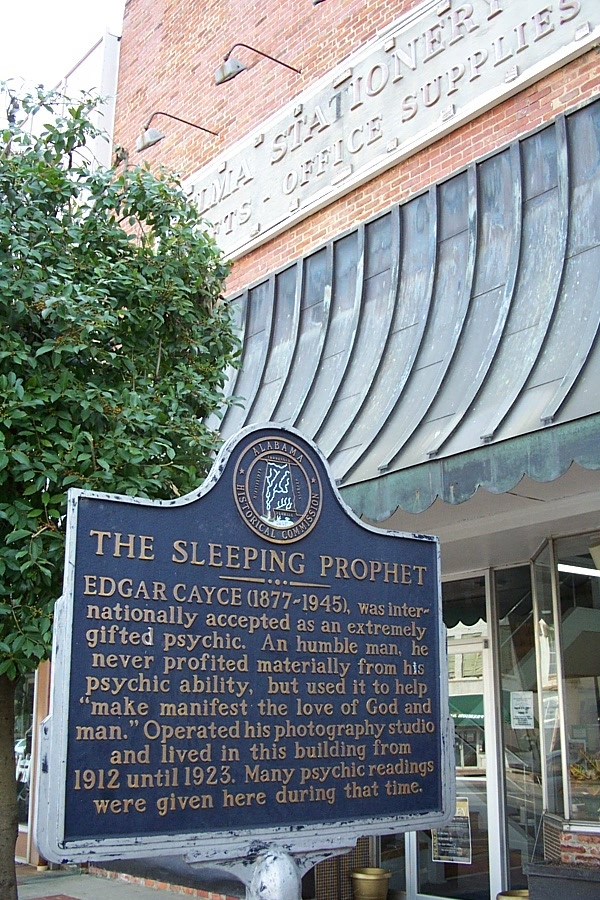 Historial marker to Edgar Cayce in downtown Selma, Alabama. The marker, placed by the Alabama Historical Commission, reads: Edgar Cayce (1877-1945) was internationally accepted as an extremely gifted psychic. An humble man, he never profited materially from his psychic ability, but used it to help "make manifest the love of God and man". Operated his photography studio and lived in this building from 1912 until 1923. Many psychic readings were given here during that time.